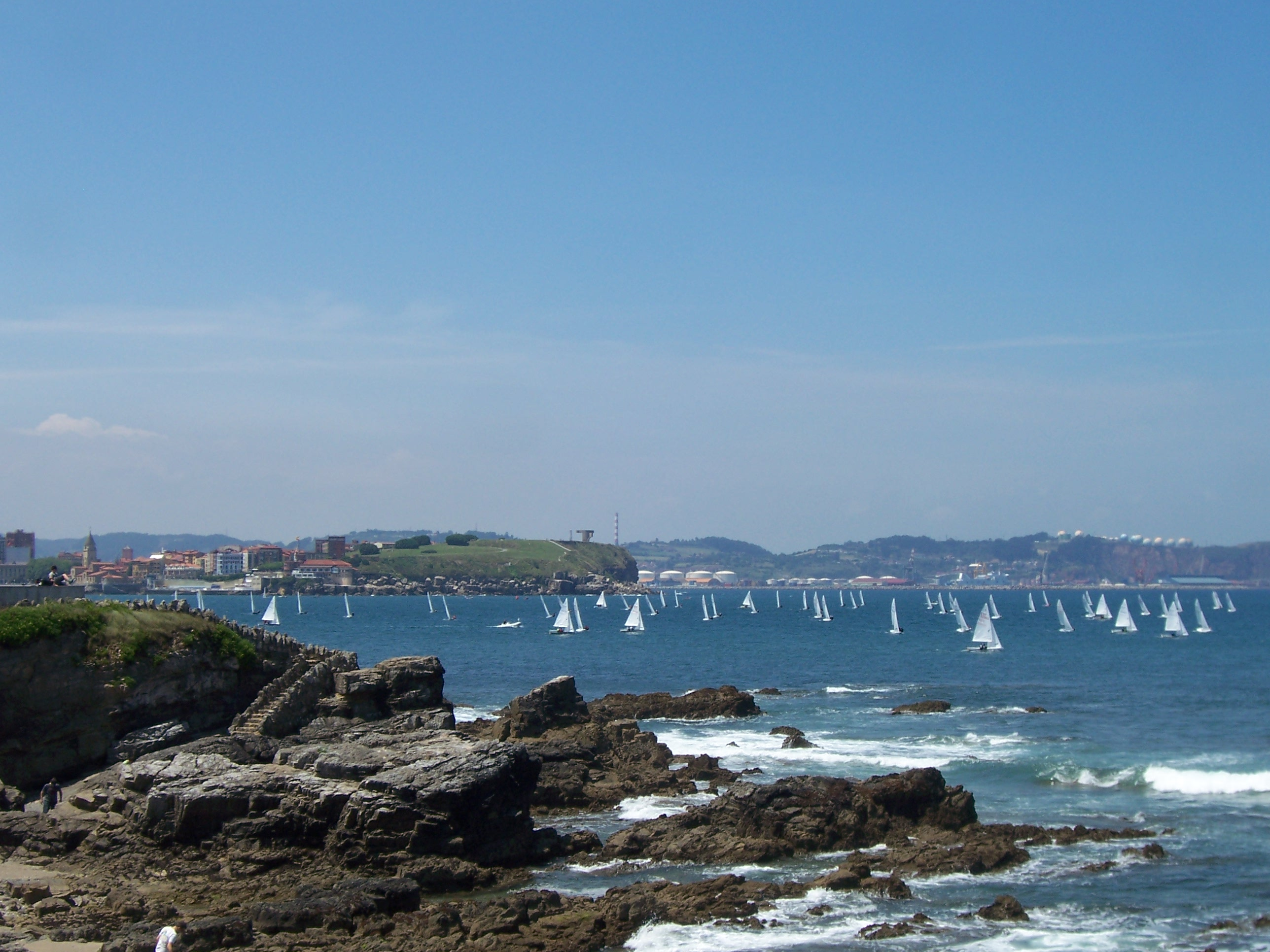 Spain Snipe Nationals 2011